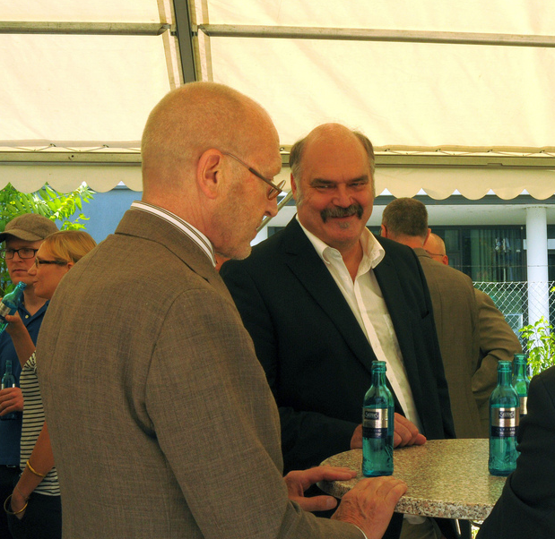 Jo. Franzke (architect) and Engelbert Schramm (ISOE) after a successful ground breaking ceremony in Frankfurt am Main